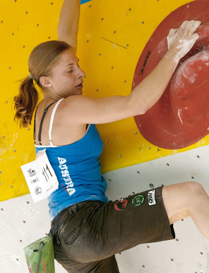 Katharina Saurwein during qualifications at the IFSC Boulder Worldcup Vienna 2010.